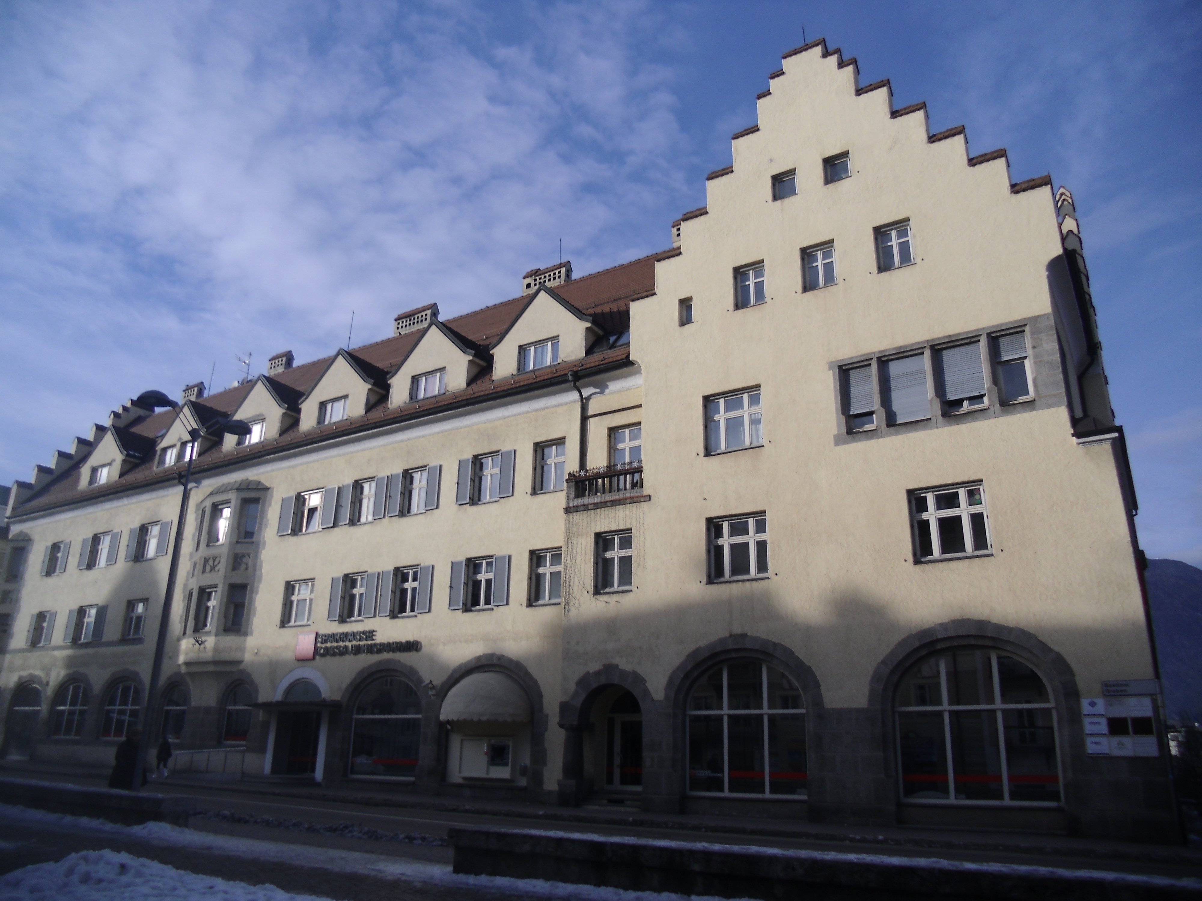 Sparkassengebäude in Bruneck